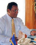 Marcus Stephen, President of Nauru, in his office.